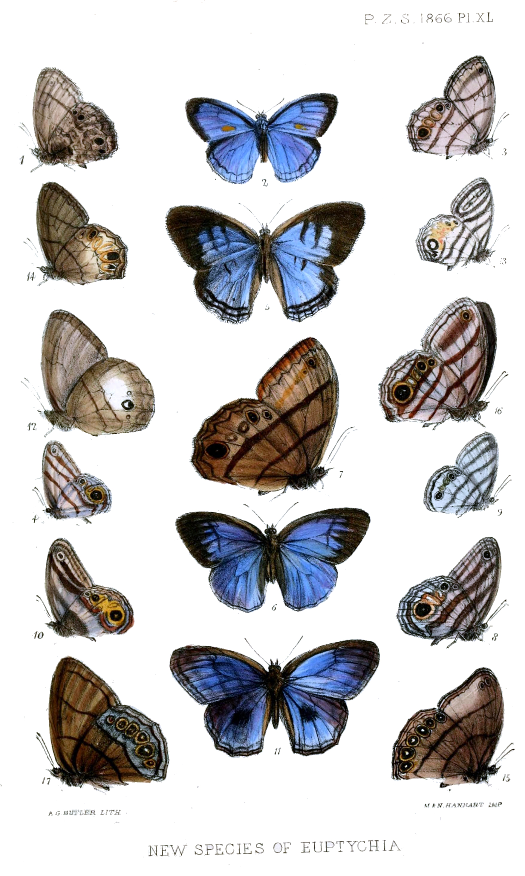 Euptychiina butterflies